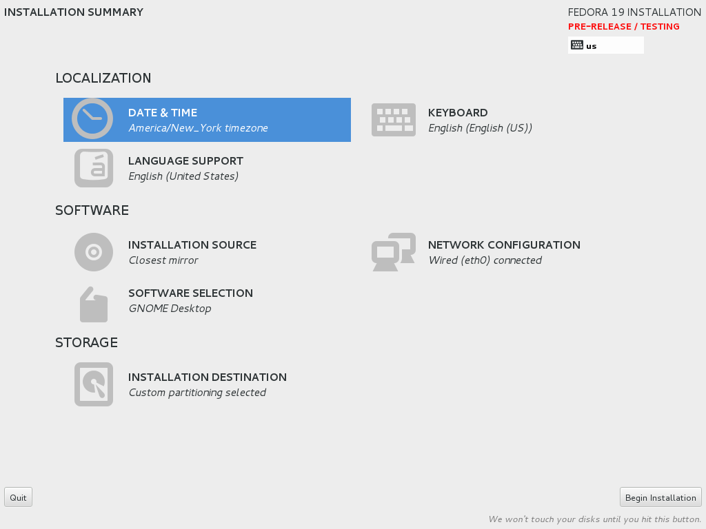 The image shows the main installation summary screen (called "hub") of the Anaconda installer in Fedora 19.